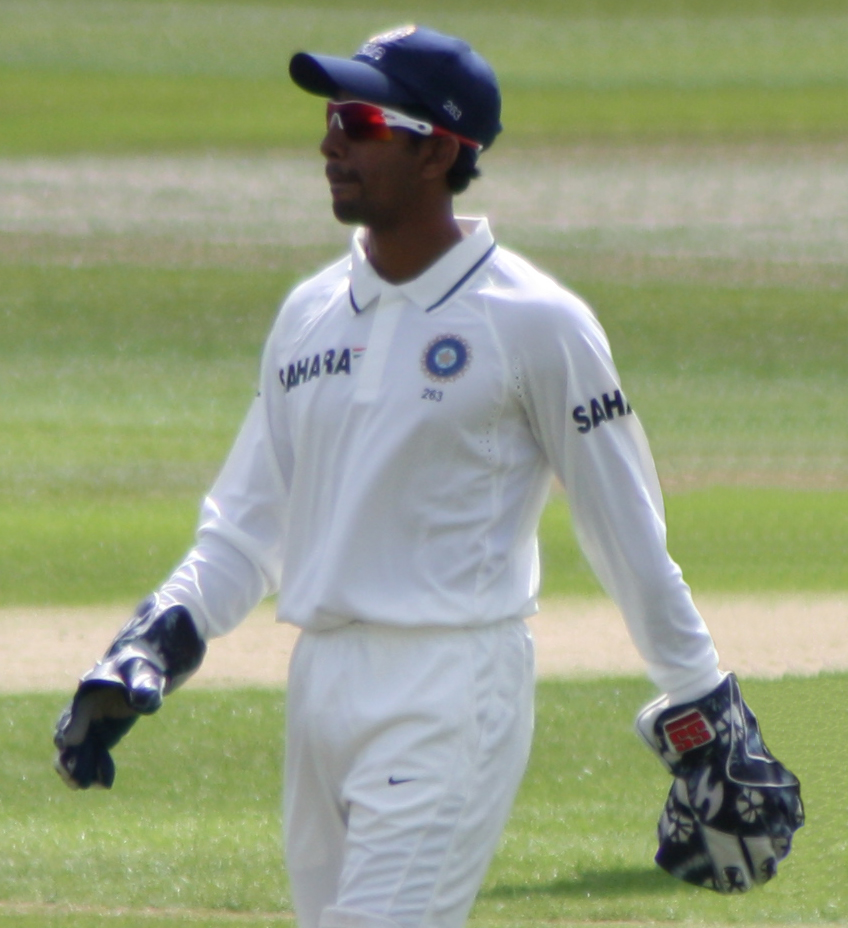 Wriddhiman Saha keeps wicket for India during the first match of their 2011 tour of England at the County Ground, Taunton.